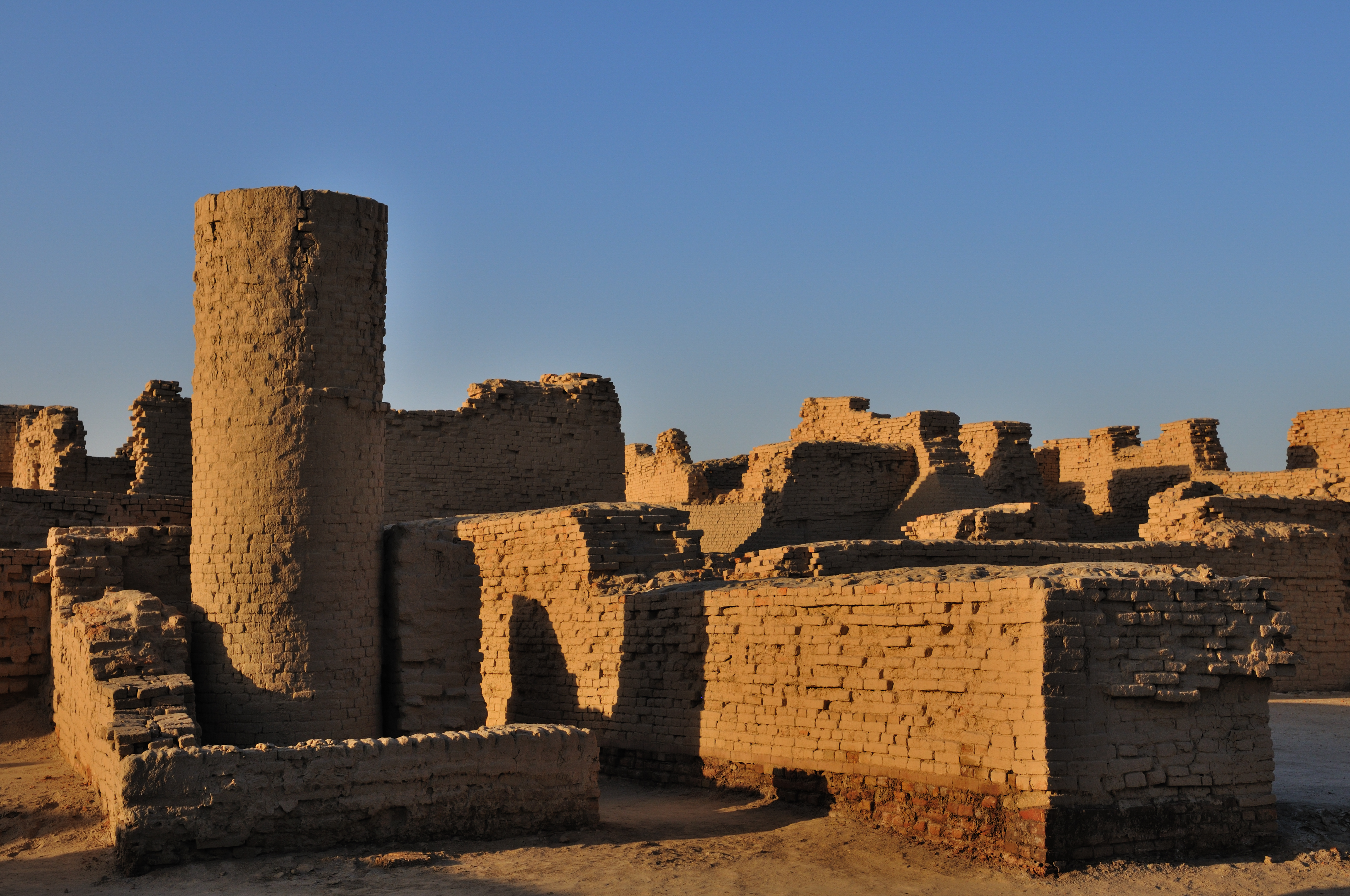 Moenjodaro This is a photo of a monument in Pakistan identified as the SD-41